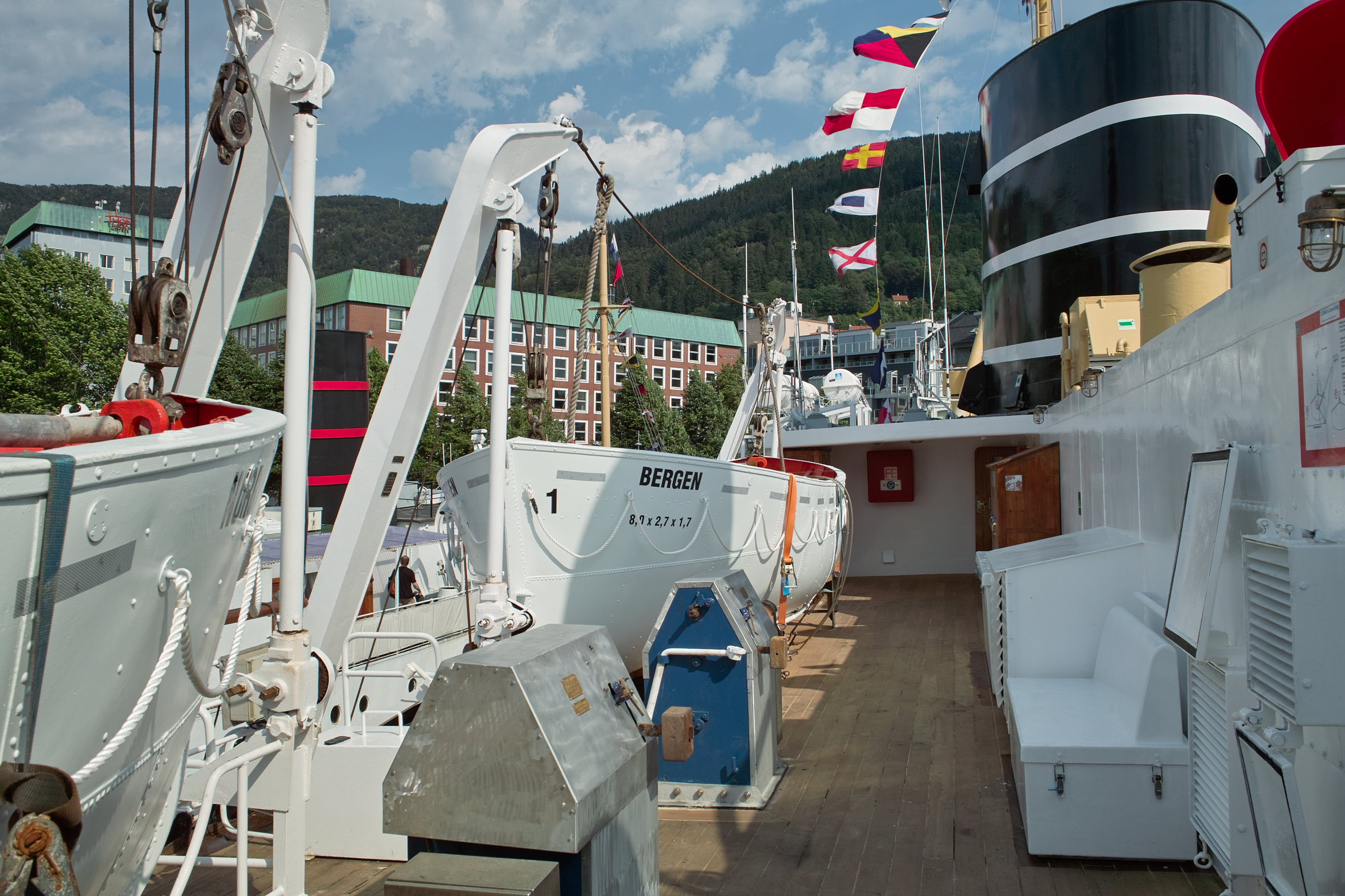 MS "Nordstjernen" in front of the former Bergen Steamship Company (BDS) building, Fjordsteam Bergen 2013. The funnel with the red stripes to the left belongs to "Rogaland".